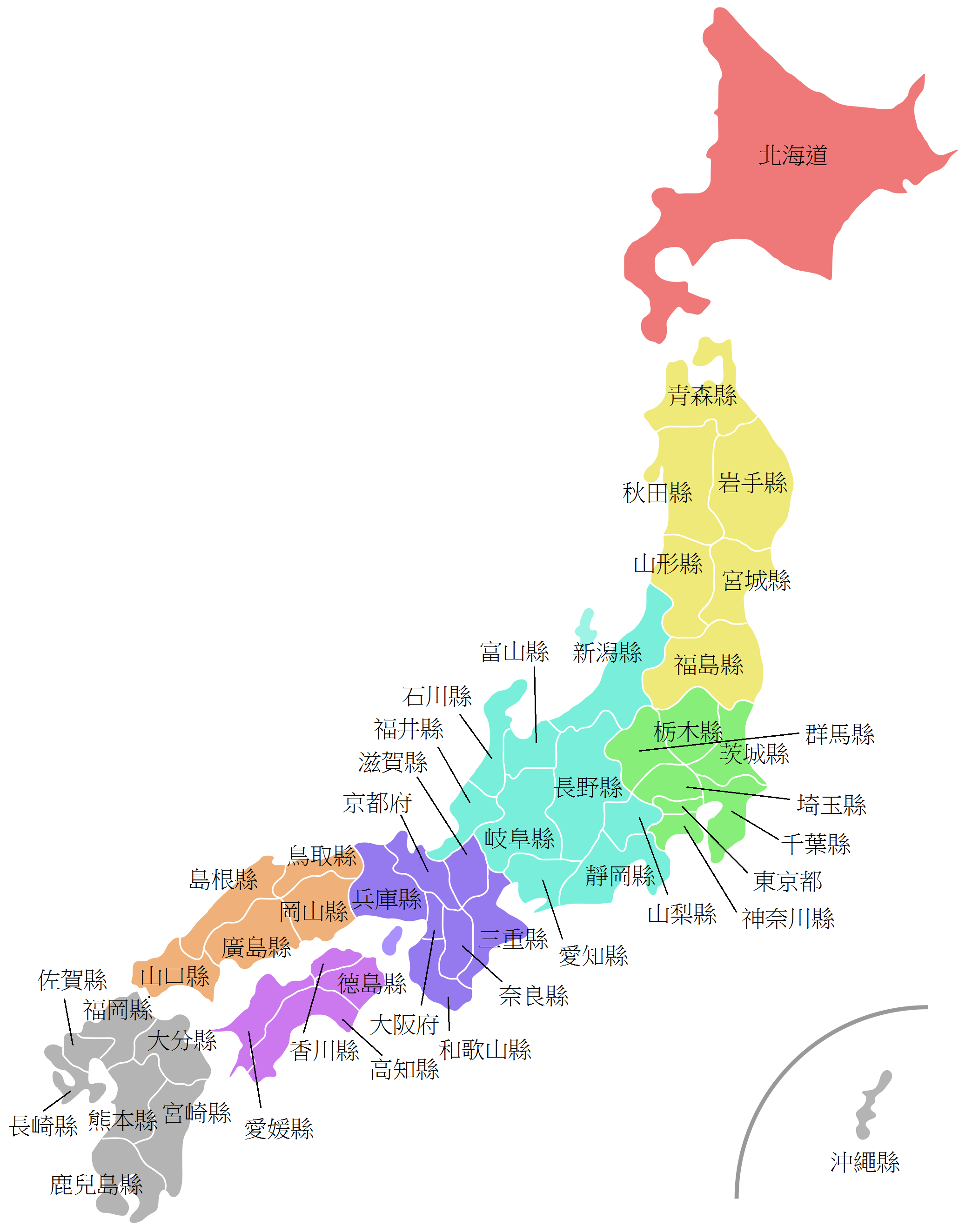 Map of the regions and prefectures of Japan with Titles in Chinese.